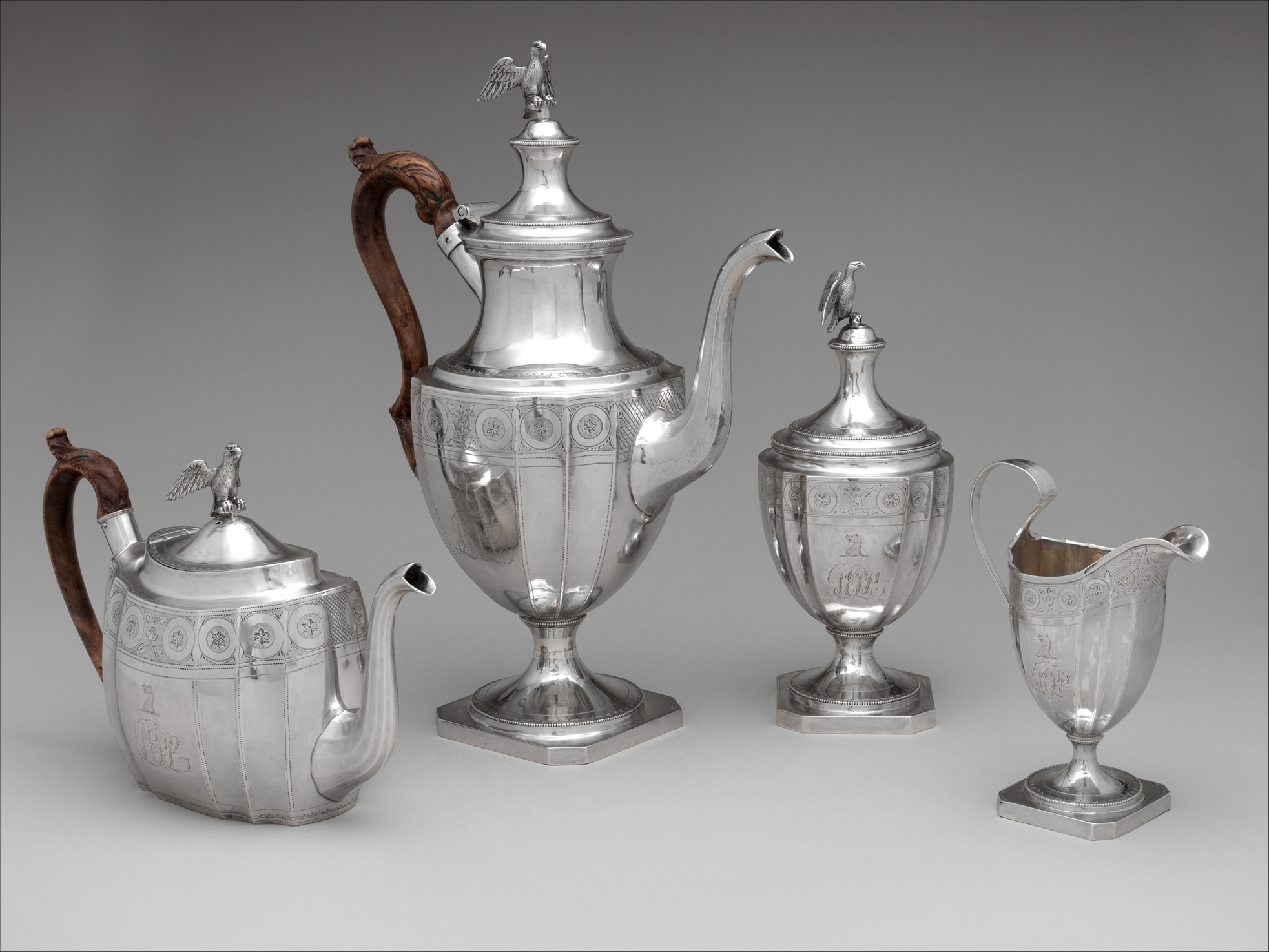 American; Coffeepot; Silver